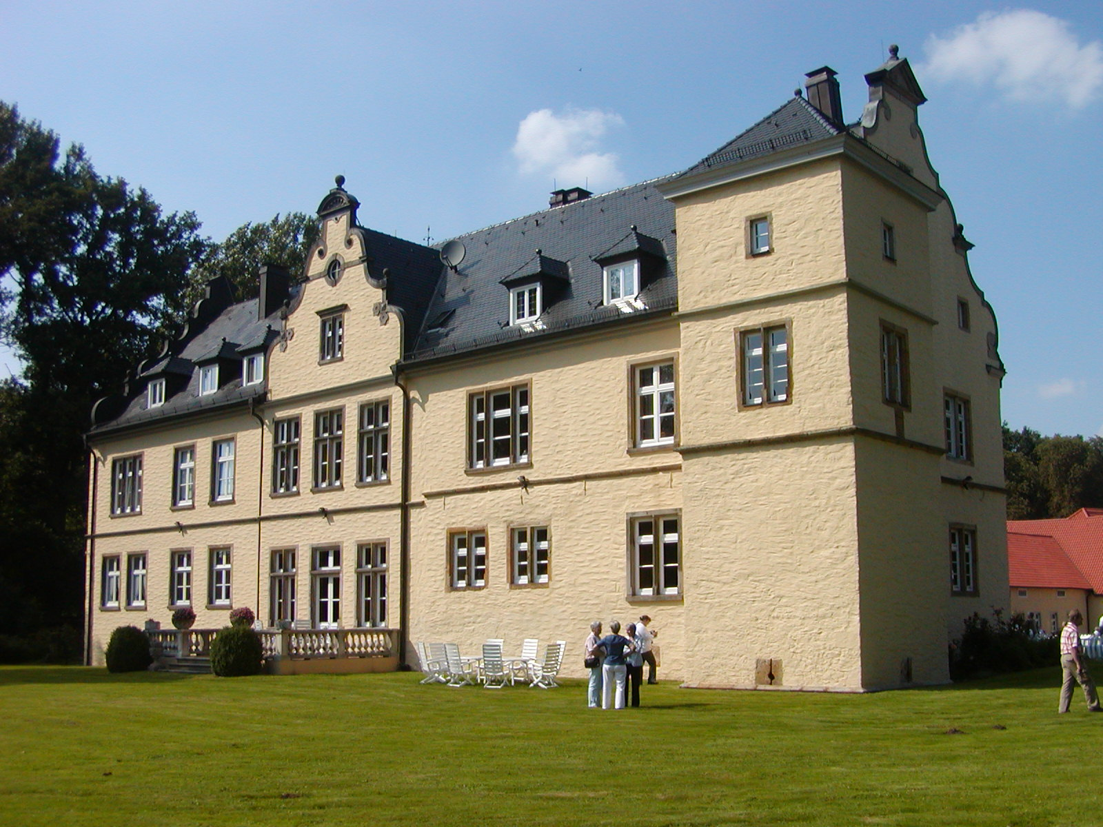 This is a photograph of an architectural monument. It is on the list of cultural monuments of Preußisch Oldendorf